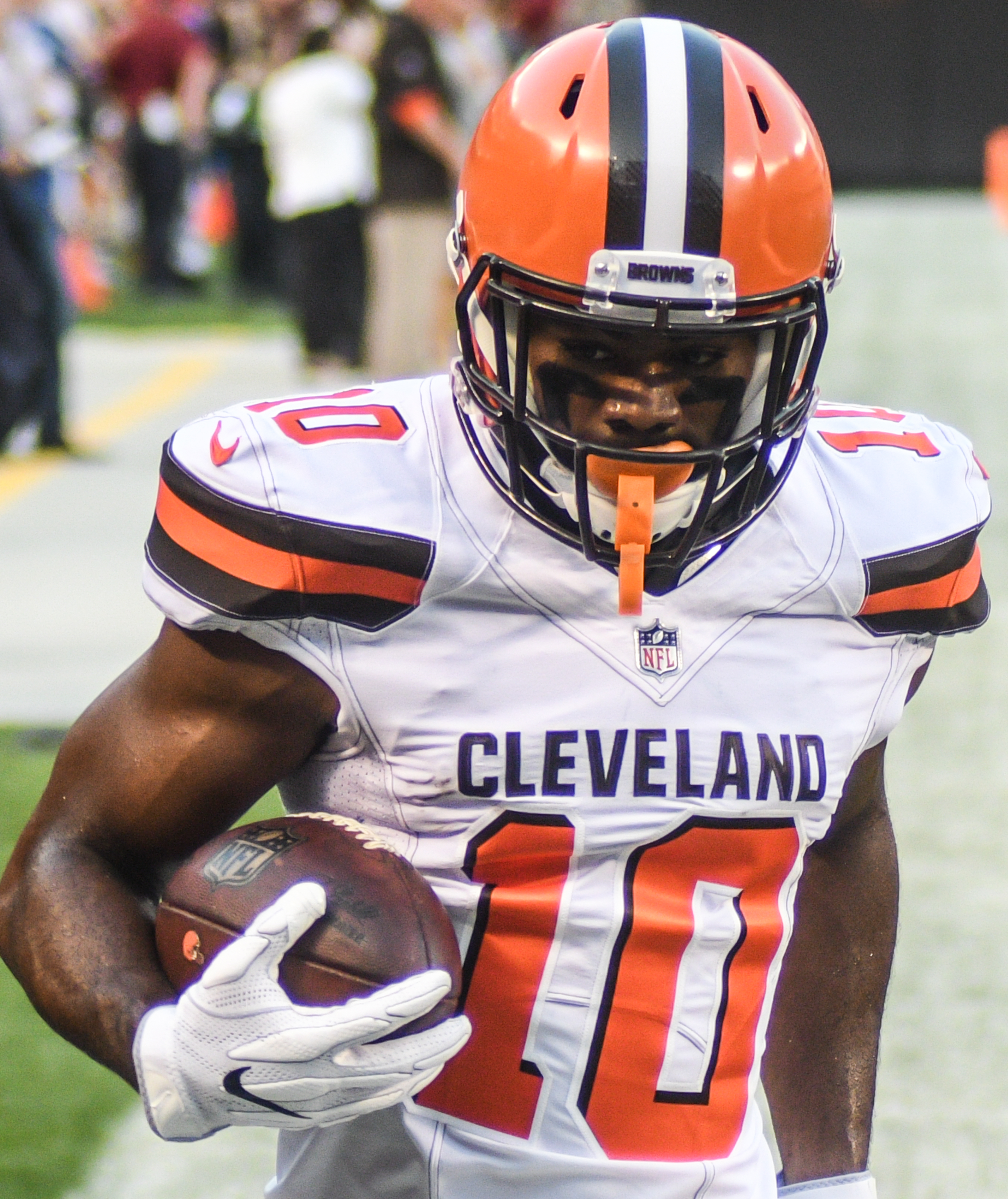 Cleveland Browns vs. New York Giants